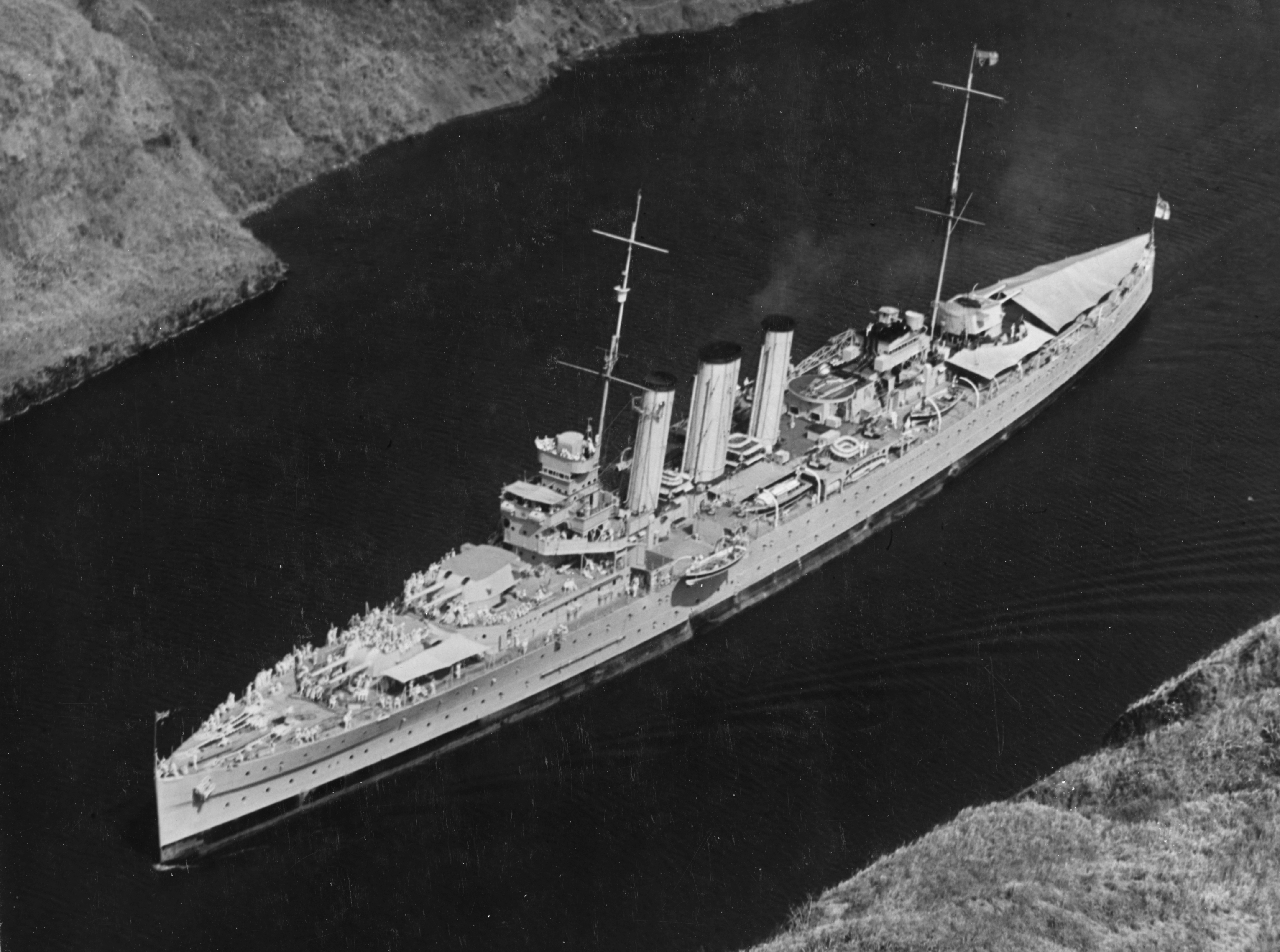 Aerial photograph of the Royal Australian Navy heavy cruiser HMAS Australia (D84) passing through the Panama Canal, March 1935.